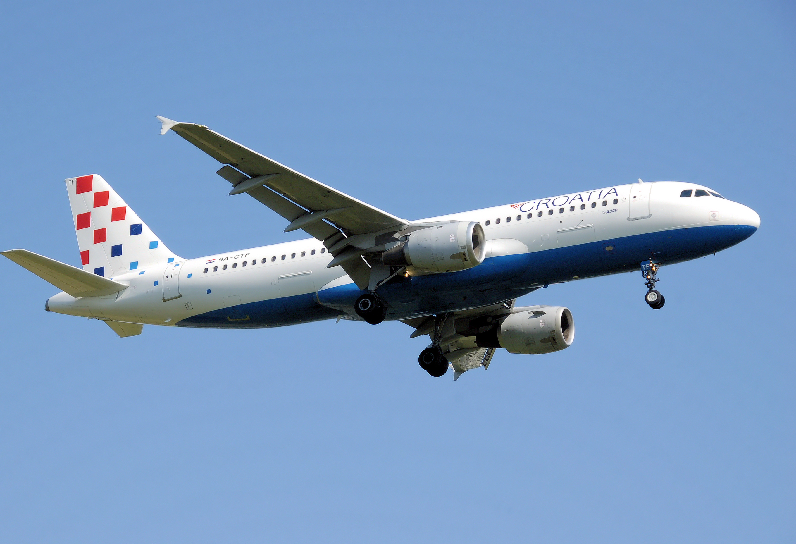 Croatia Airlines Airbus A320-200 (9A-CTF) landing at London Heathrow Airport, England.